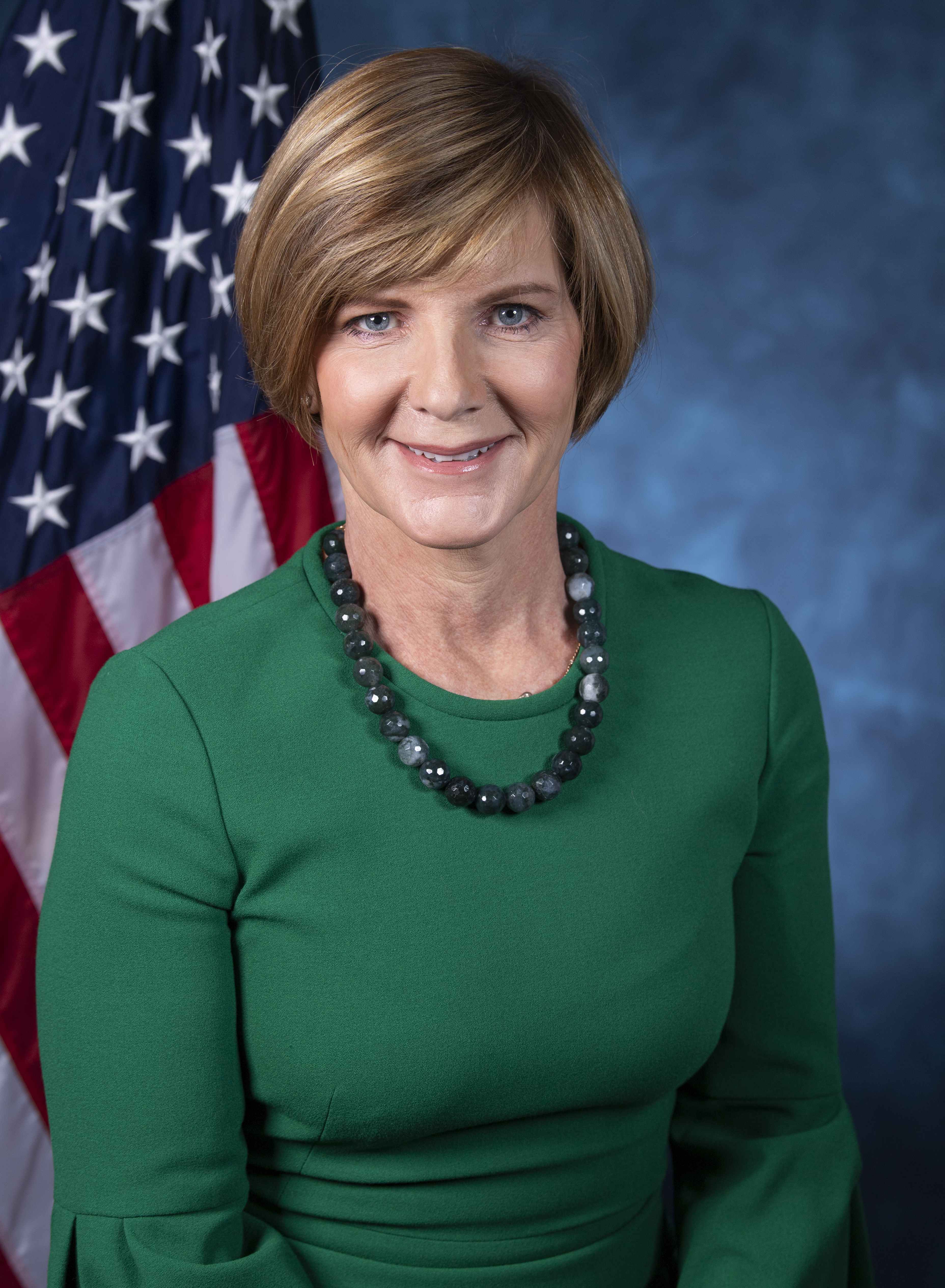 Rep. Susie Lee (D-NV03)